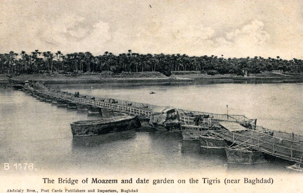 A postcard with a picture of the old Al Adhamiya bridge and palm forests near Baghdad. It was written by: Abdul Ali Brothers Foundation, Postcard Publishers and Importers, and the card does not know its history and was most printed during World War I in 1917.